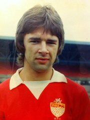 Team photograph of Alan Hill (Wrexham FC)